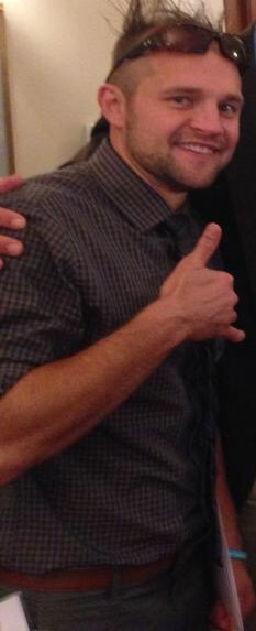 Derrick Kosinski at the launch of Congressional Ovarian Cancer Caucus.